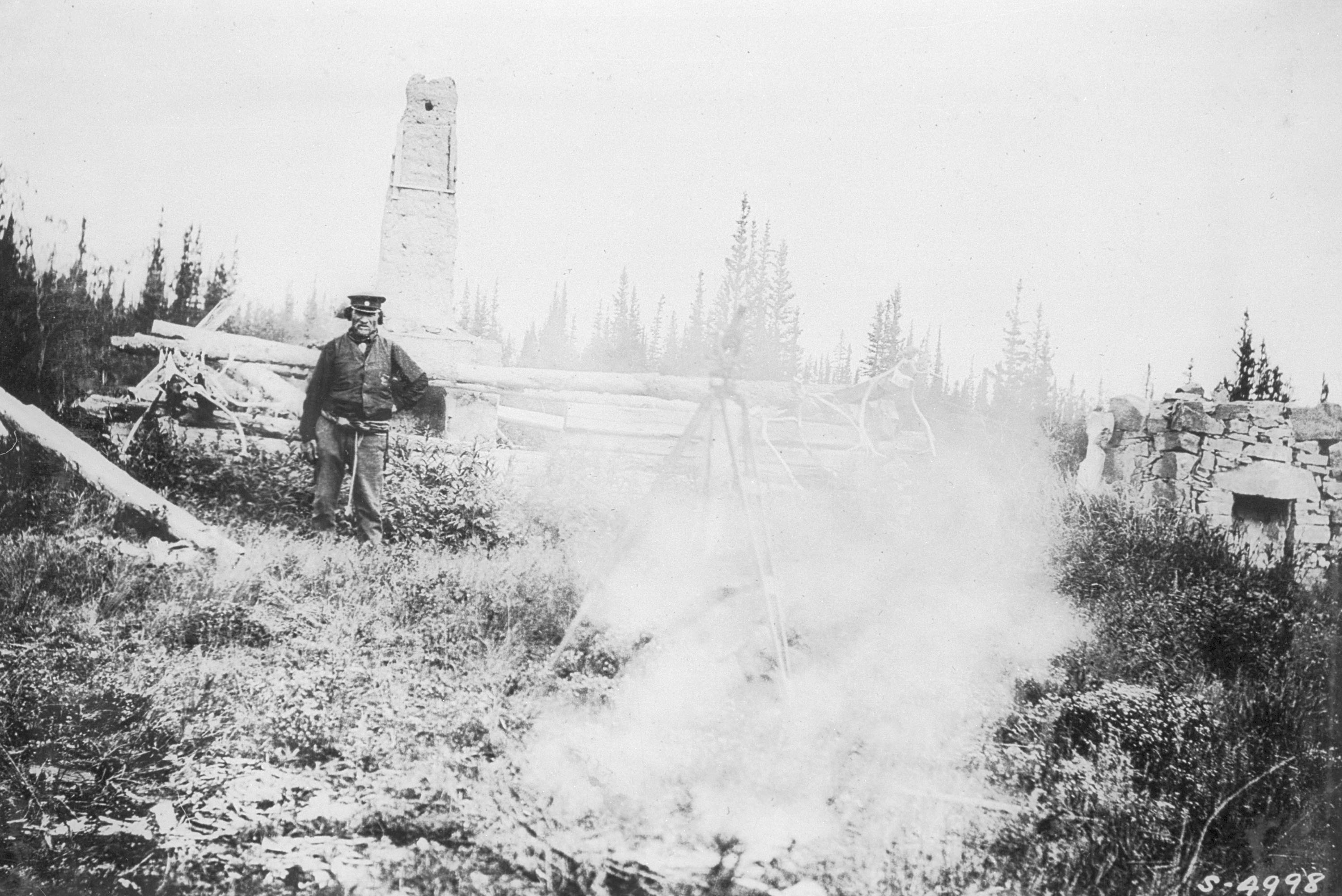 Fort Reliance, showing the chimney erected by Back in 1833, and the remains of the cabin built by Buffalo Jones. John Russell hired Métis Sousi Beaulieu to guide him while surveying the northern shore of the East Arm of Great Slave Lake. Beaulieu stands in front of the cabin remains wearing a traditional Métis sash. Template:NWT archive